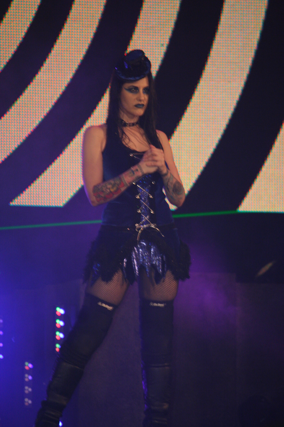 Professional wrestler Daffney at a TNA Impact! taping